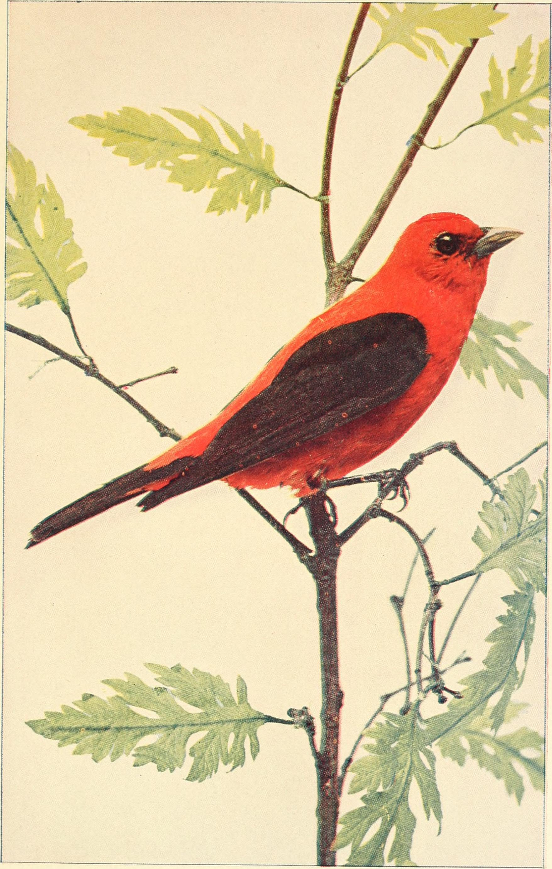 Scarlet Tanager Title: The first book of birds; Year: 1899 (1890s) Authors: Miller, Harriet Mann, 1831-1918 Subjects: Birds Publisher: Boston, New York, Houghton, Mifflin and company Text Appearing Before Image: ' Text Appearing After Image: HIS KINDNESS TO OTHERS 75 what birds live in a place, he can bring them allaround him by making a sound like a youngbird in distress. All who hear it will come tosee what is the matter. Let me tell you a story of some young swal-lows. They were able to fly a little, and weresitting together on a roof, when a lady whowas watchinof them noticed that one of themseemed to be weak, and not able to stand up. When the parents came with food, the othersstood up and opened their mouths, and so werefed, but this little one hardly ever got a morsel. If birds had no love for each other, as manypeople think, these strong little ones would nothave cared if their brother did starve; but whatdid the lady see ? She says that two of thestrong young swallows came close up to theirweak brother, one on each side. They put theirbeaks under his breast and lifted him up on tohis legs, and then crowded so close against himthat their little bodies propped him up, and heldhim there; so that he had his chance of